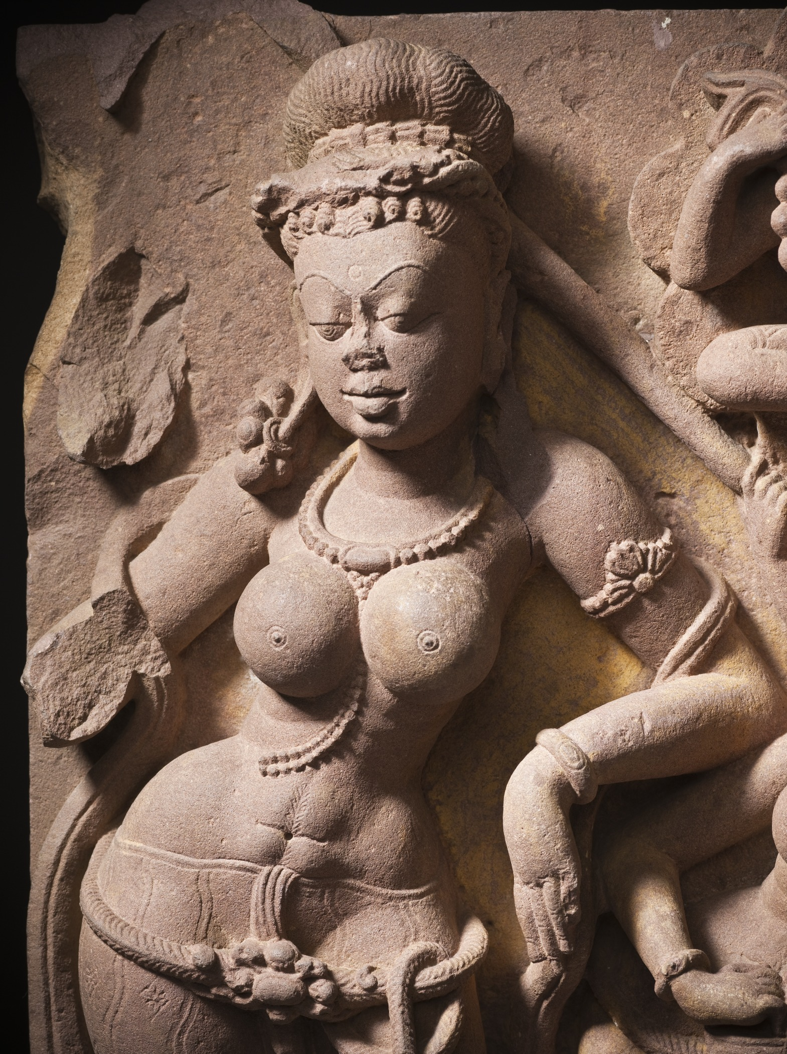 India, Rajasthan, circa 800 Sculpture Red sandstone Overall: 29 1/2 x 26 1/2 x 8 in. (74.93 x 67.31 x 20.32 cm); (a) 26 1/4 x 18 1/2 x 8 in. (66.67 x 46.99 x 20.32 cm); (b) 29 1/2 x 8 1/2 x 5 1/2 in. (74.93 x 21.59 x 13.97 cm) From the Nasli and Alice Heeramaneck Collection, Museum Associates Purchase (M.79.9.10.2a-b) South and Southeast Asian Art